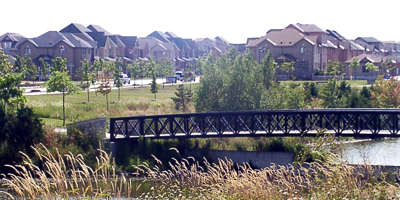 Bridge across pond in Berczy Village community, Markham, Ontario, Canada.